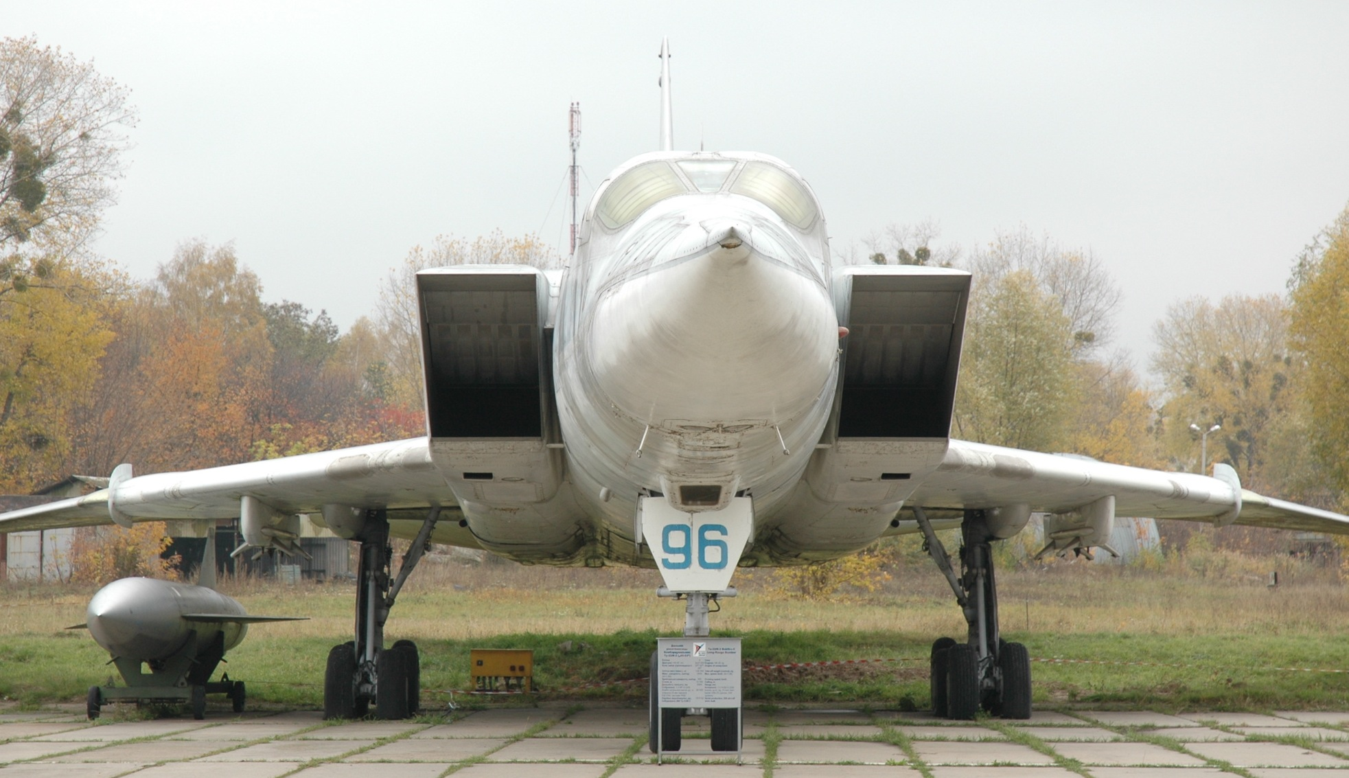 Tupolev Tu-22M3 strategic bomber